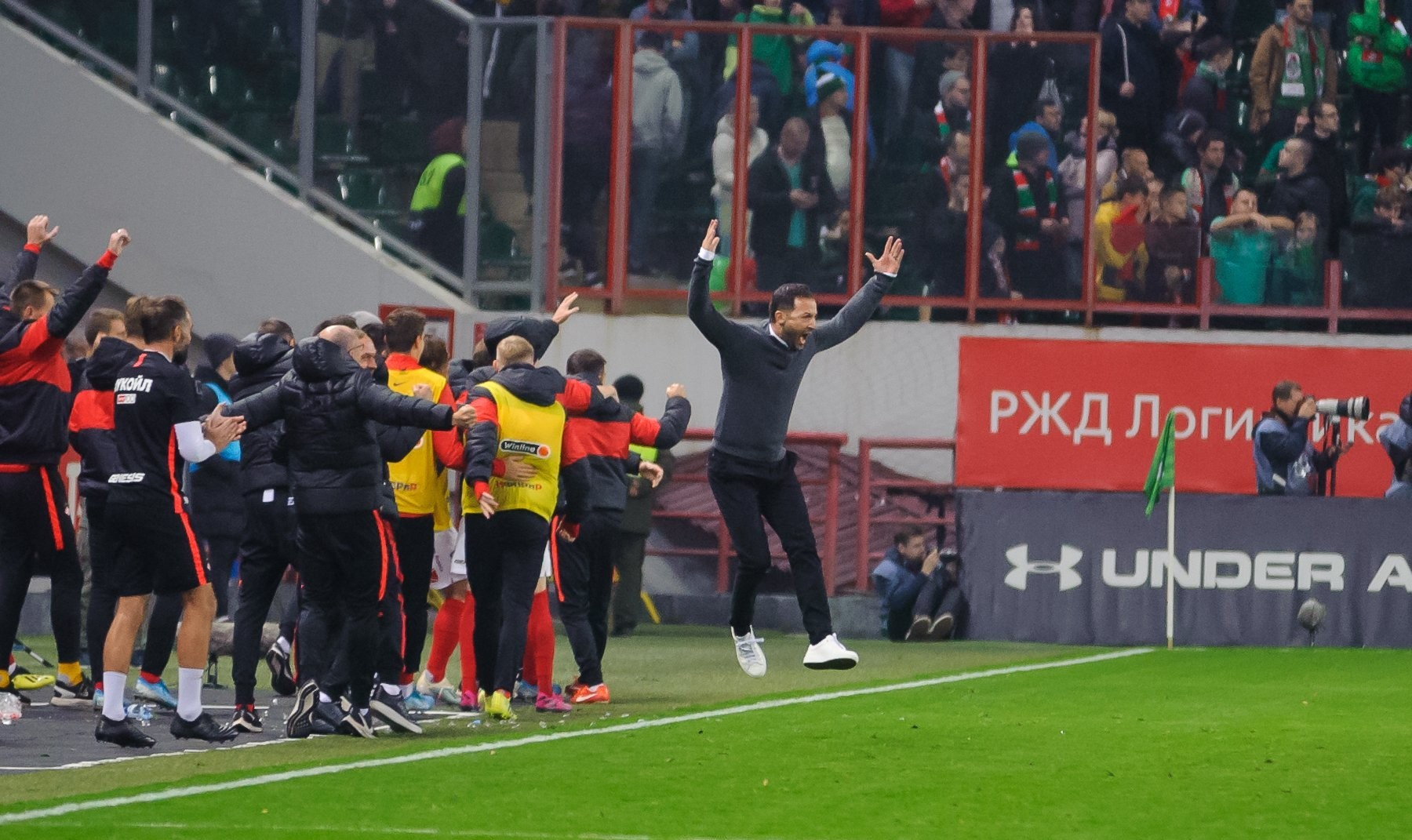 Domenico Tedesco coaching FC Spartak Moscow in a game against FC Lokomotiv Moscow